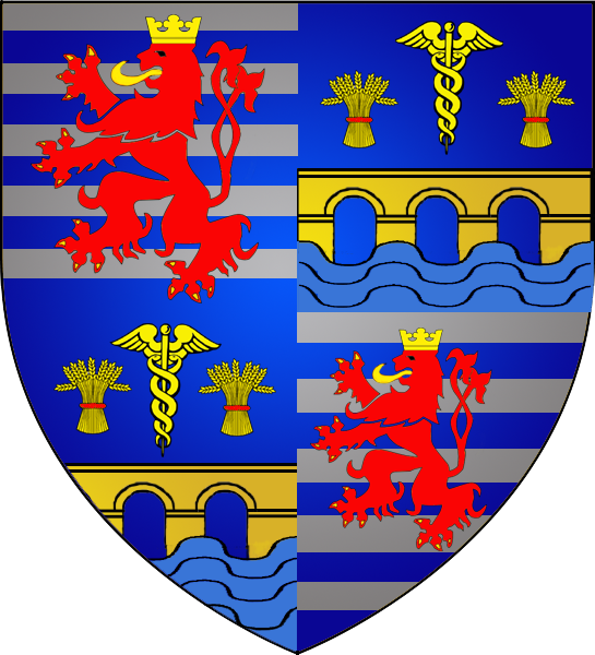 Coat of arms of the municipality of Ettelbruck, Luxembourg